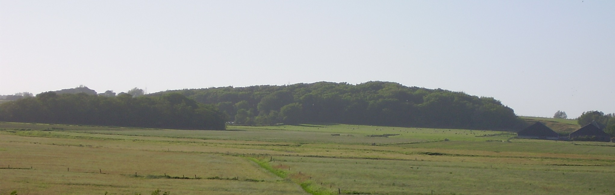 The Doolhof forest on Texel taken from the Waddendijk at Redoute.